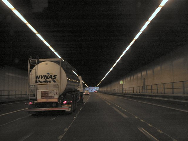 The Bell Common Tunnel on the Essex stretch ot the M25 motorway.